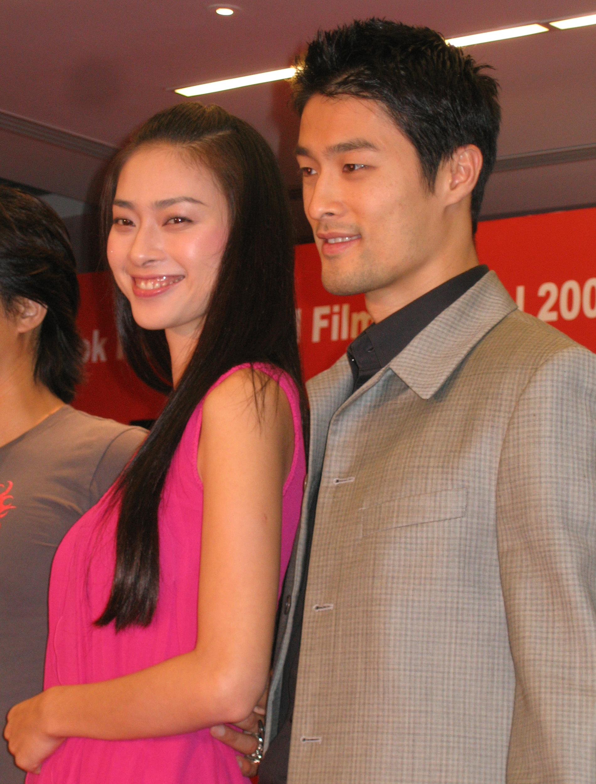 Vietnamese-American actor Johnny Tri Nguyen and Vietnamese singer-model-actress Ngo Thanh Van at a press conference for The Rebel at the 2007 Bangkok International Film Festival at SF World in CentralWorld, Bangkok.